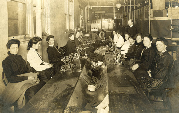 Eaton's seamstresses at work, Eaton's department store, Toronto, Canada